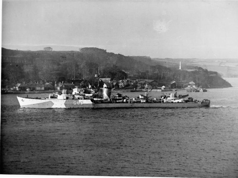 IWM caption : HMS OPPORTUNE coming into Plymouth harbour.